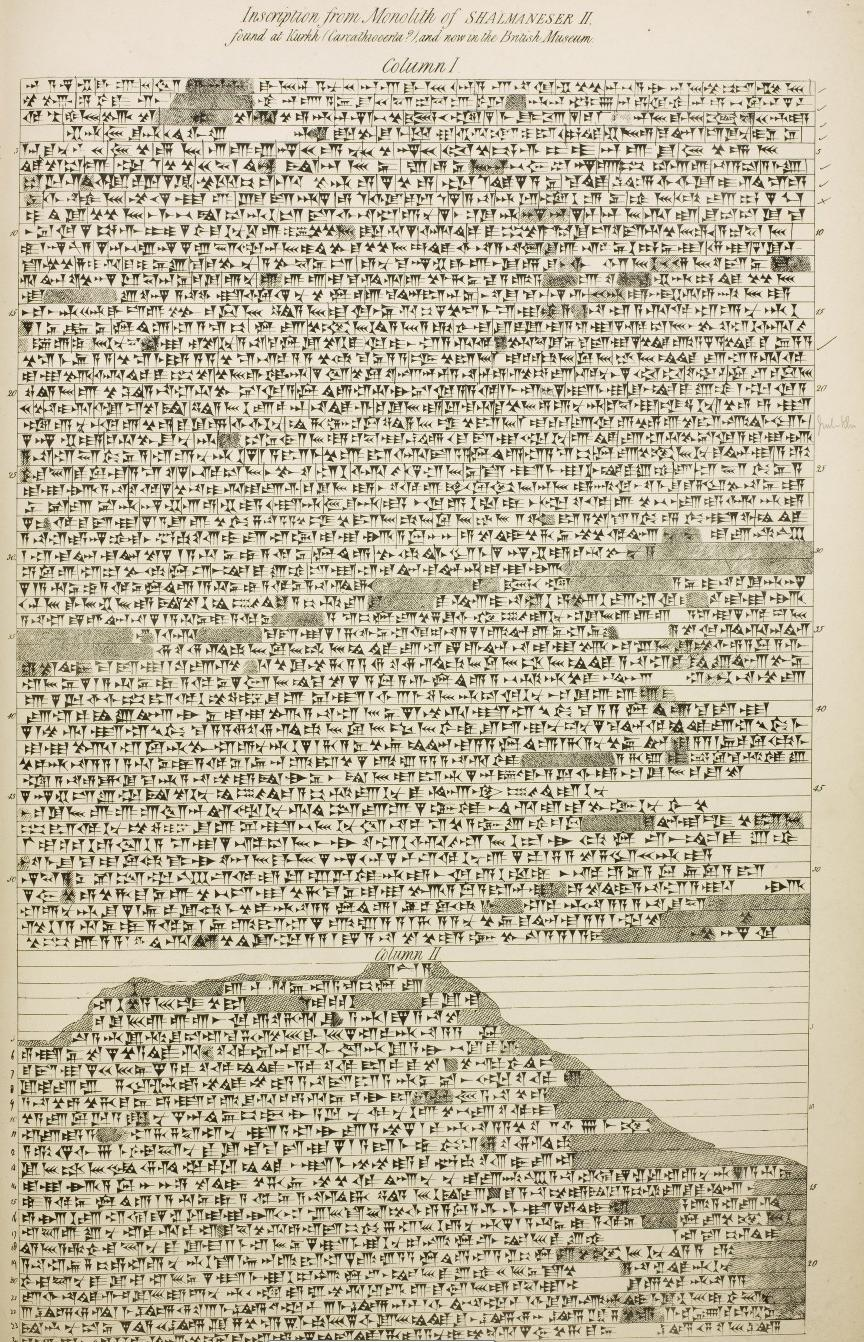 Kurkh Shalmaneser III Inscription